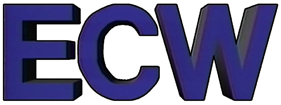 The NWA Eastern Championship Logo used from 1993 on.